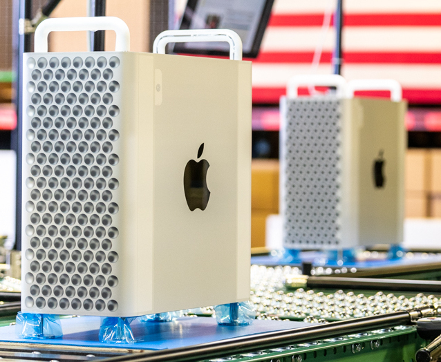 Apple Computer towers are seen on the assembly line at the Apple Manufacturing Plant Wednesday, Nov. 20, 2019, at Flextronics International LTD-Austin Product Introduction Center, where the Apple Mac Pro desktop is assembled. (Official White House Photo by Shealah Craighead)